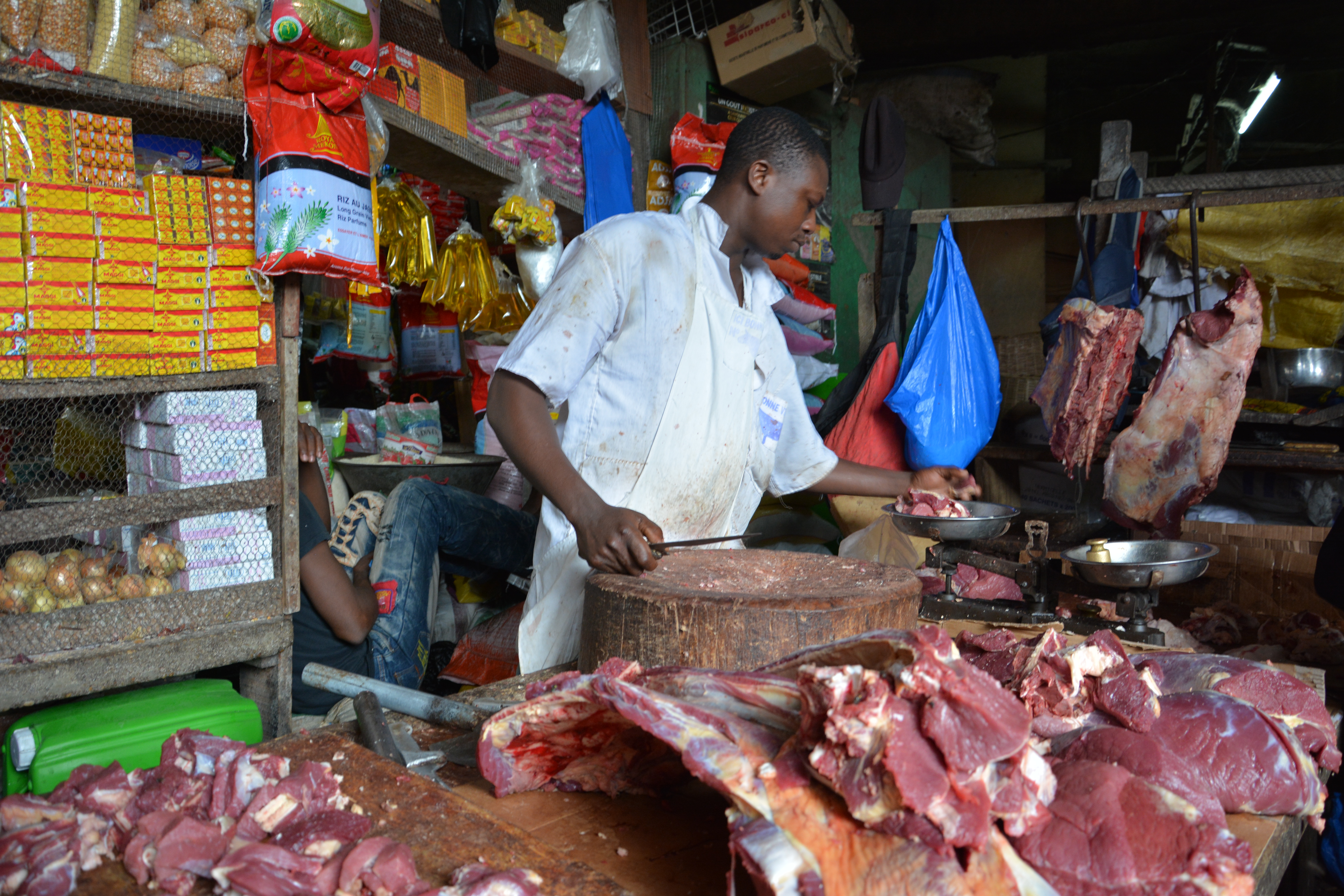 This is an image of food from Côte d'Ivoire